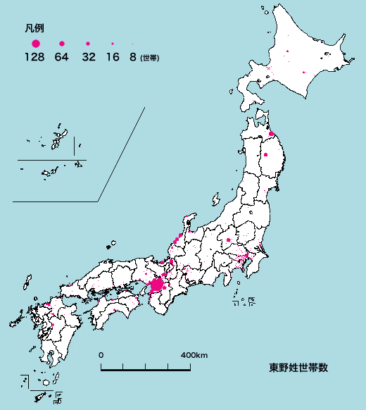 Higashino Family Distribution Map by Phone book 1999